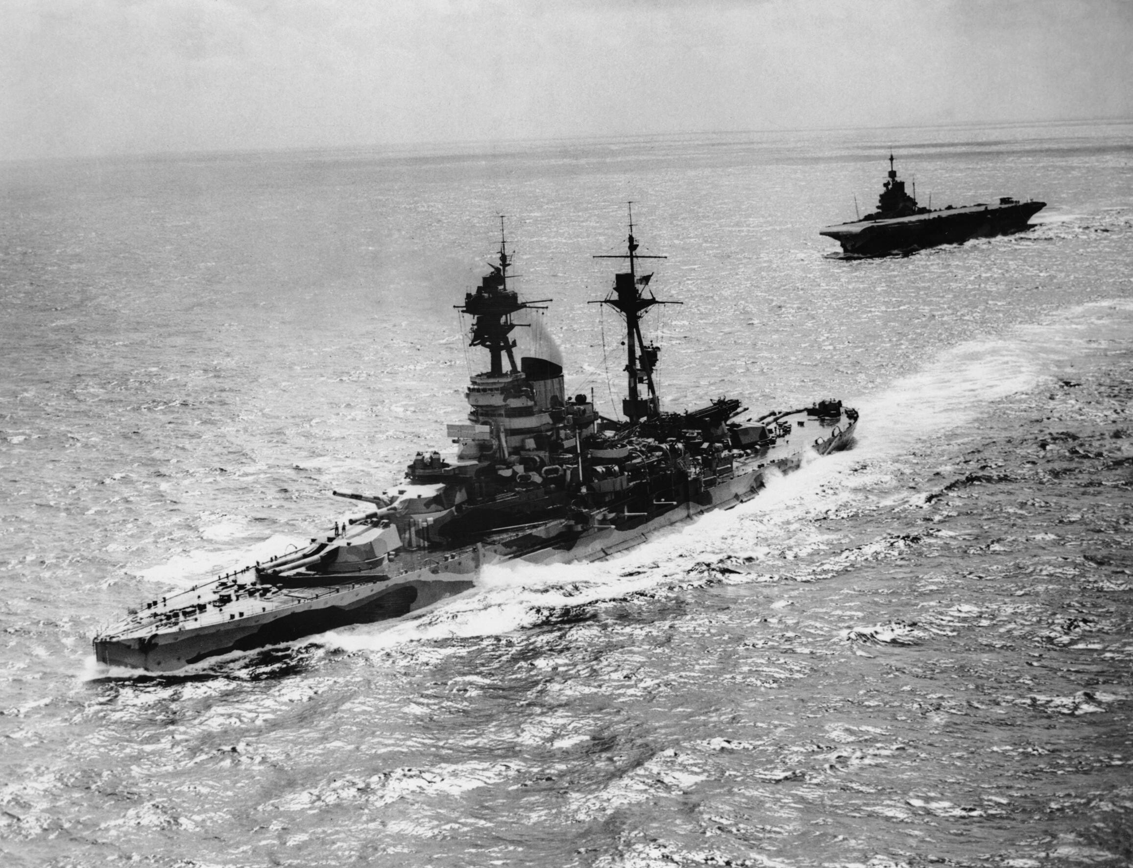 The Royal Navy during the Second World War HMS RESOLUTION and HMS FORMIDABLE of the eastern fleet sailing in the Indian Ocean.